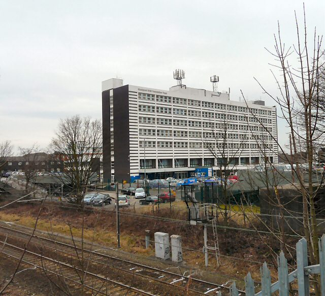 Stepping Hill Hospital Viewed from the railway bridge on Bramhall Moor Road.